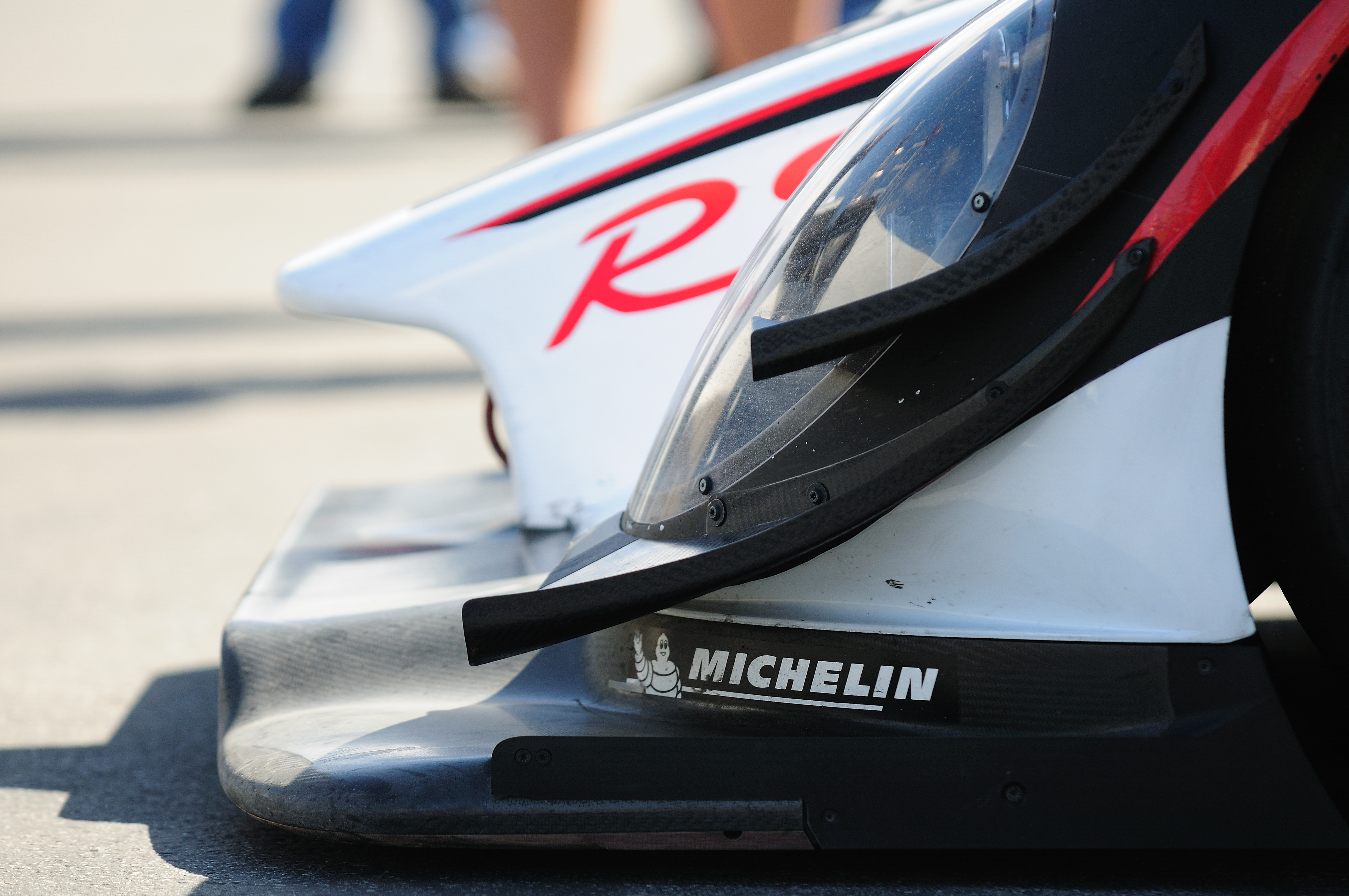 Porsche RS Spyder front splitter, headlamp, nose and flaps.